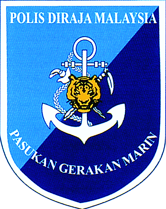 The official crest of Royal Malaysian Police Marine Operations Force.